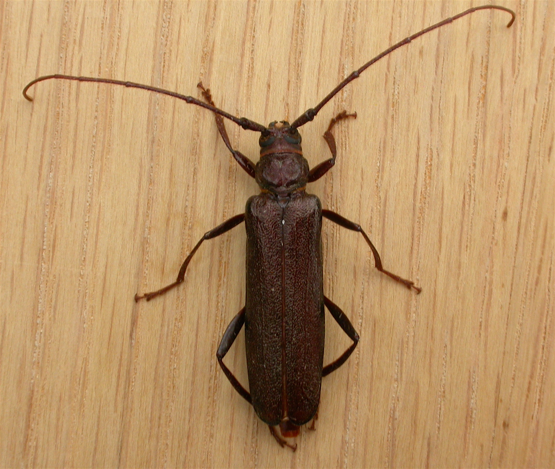 Xystrocera virescens Newman, 1840, to MV light, Aranda, ACT, 22/23 December 2008